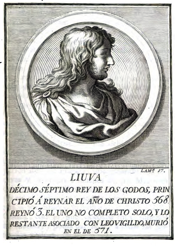 A poster of LIUVA I, Visigoth king, n° 17 in the chronological order of the book digitalized by Google since the bookshop in the University of Oxford.